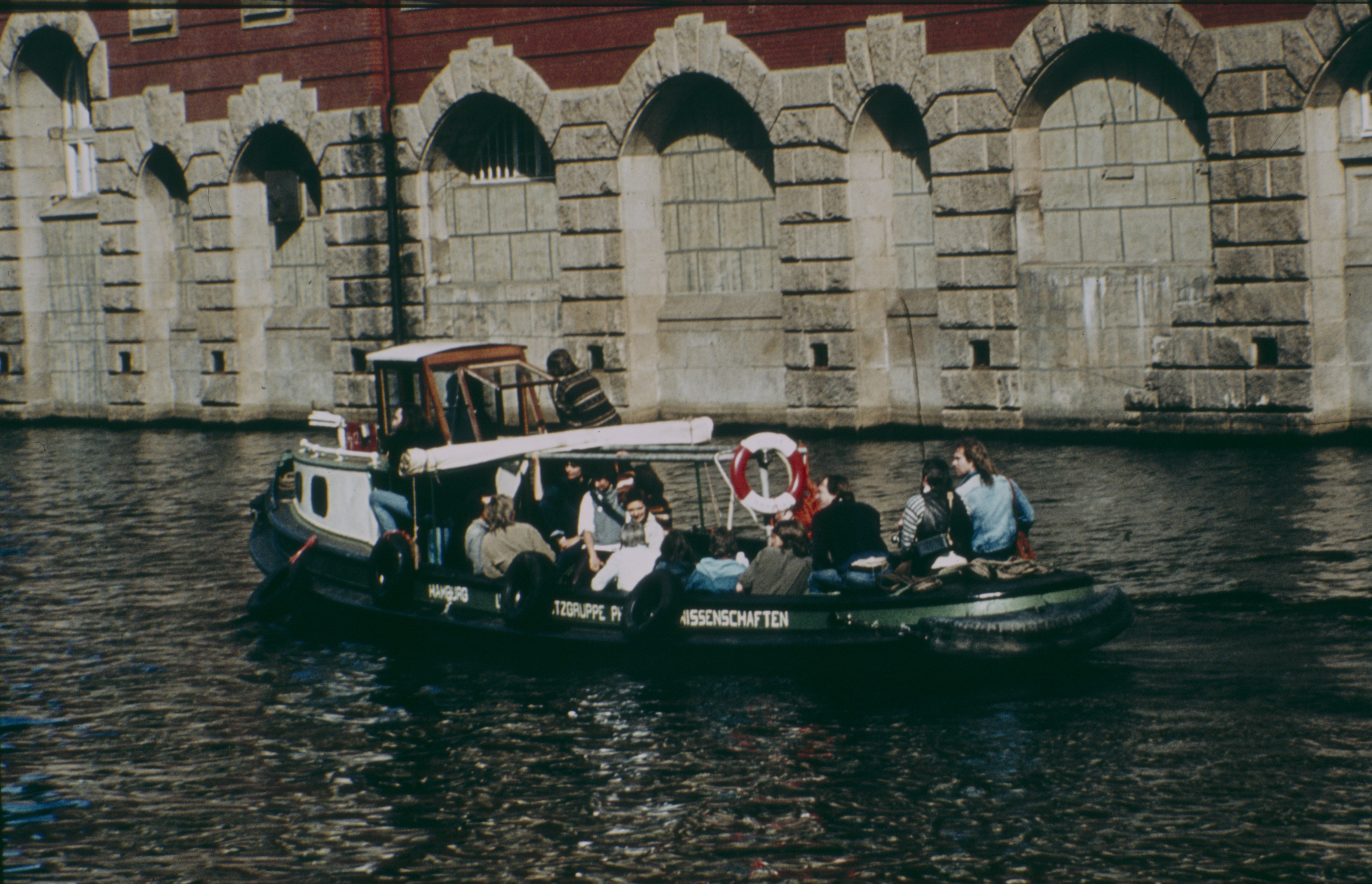 Launch Elise of the Umweltschutzgruppe Physik Geowissenschaften in Hamburg.